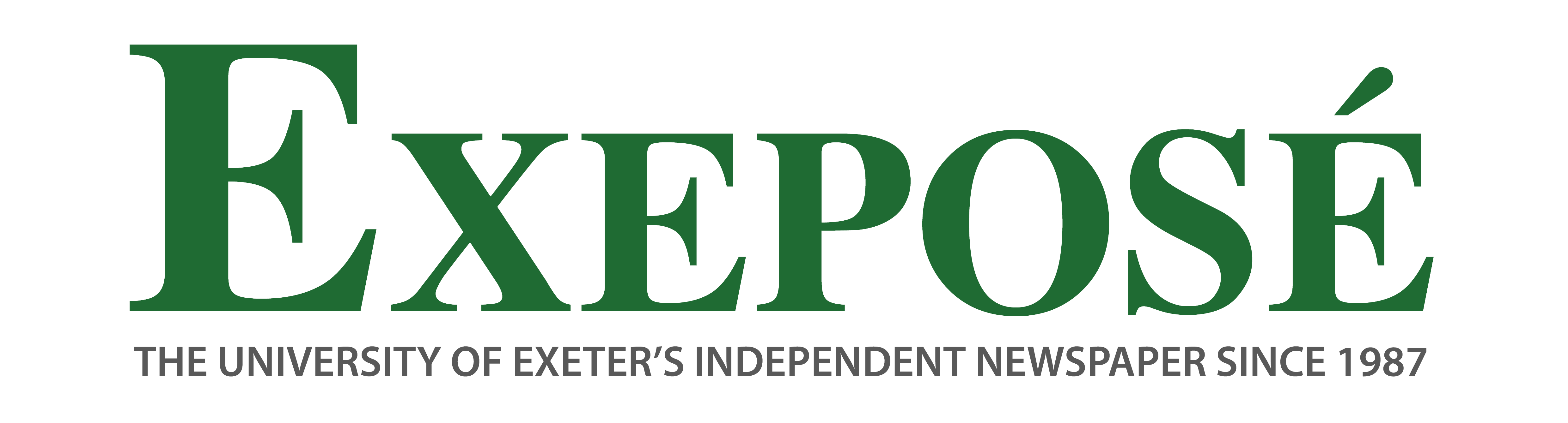 The logo University of Exeter's independent student newspaper, Exeposé, between 2014 and 2016.